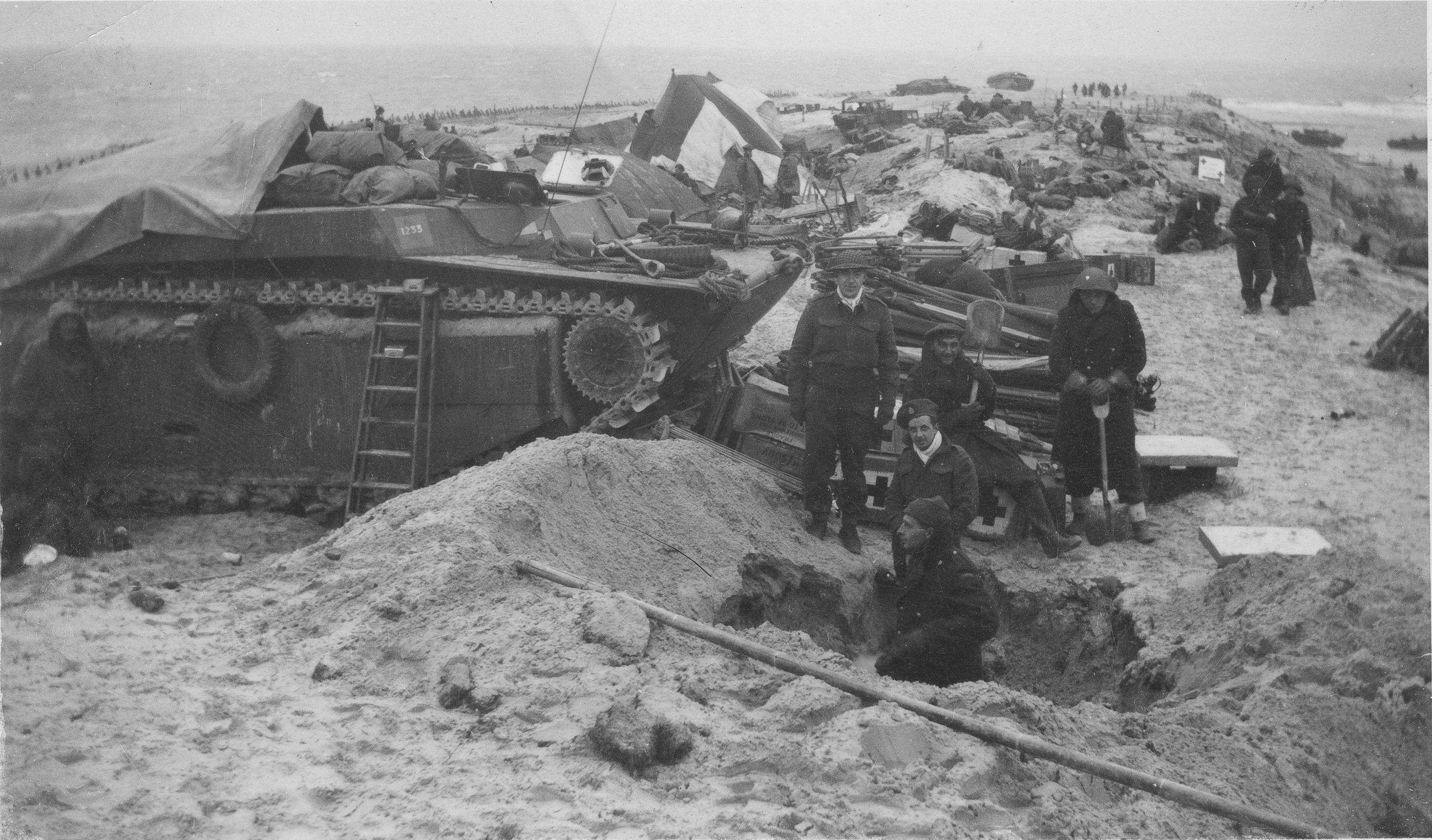 Canadian combat medics constructing a field hospital. Battle of the Scheldt, 1944. From the Donald Carson fonds, PR2011.0001/14.